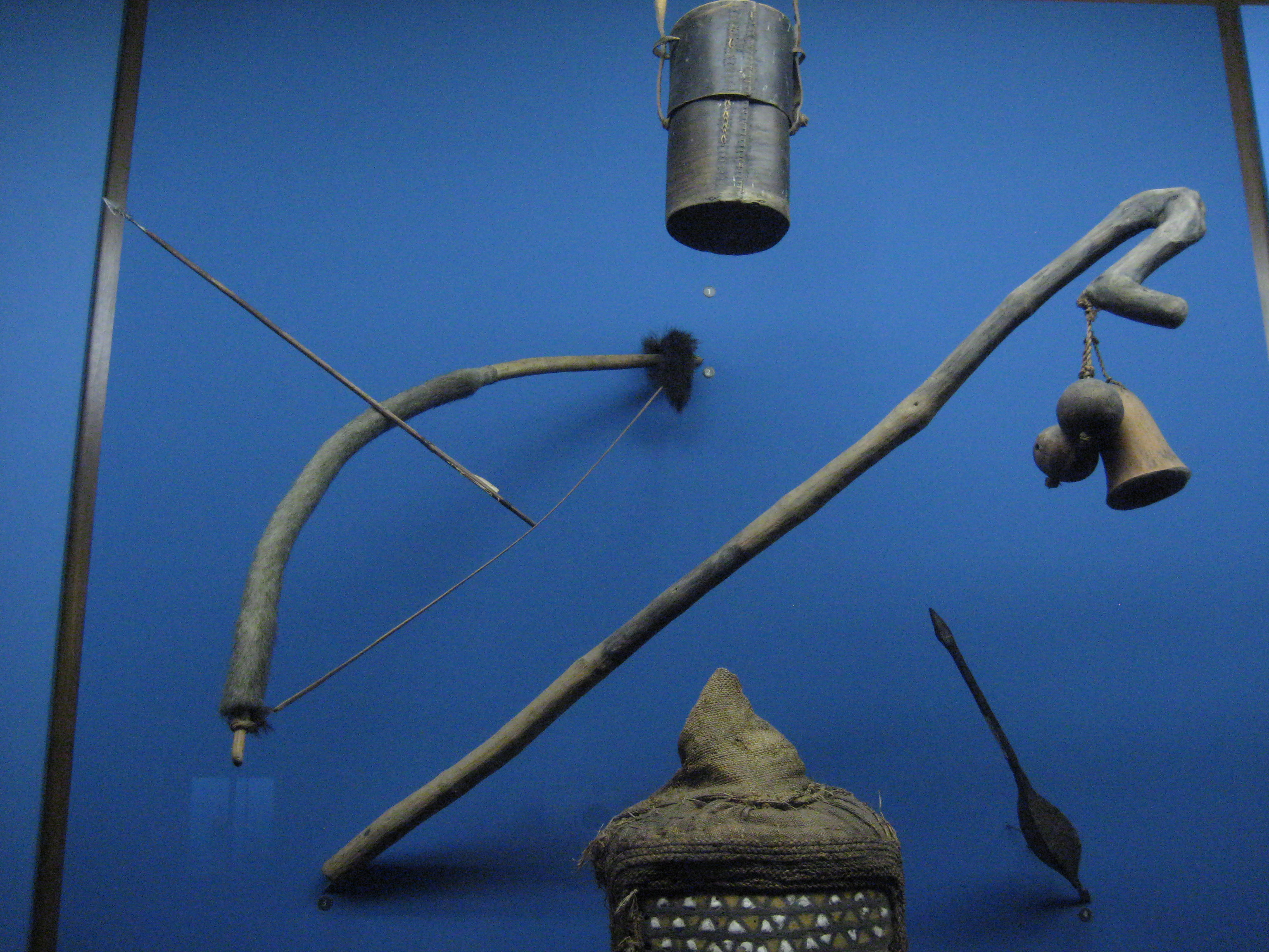 African (Forest Bira peoples). Bow and Arrow and Hooked Staff with Gourd Rattles and Bell.